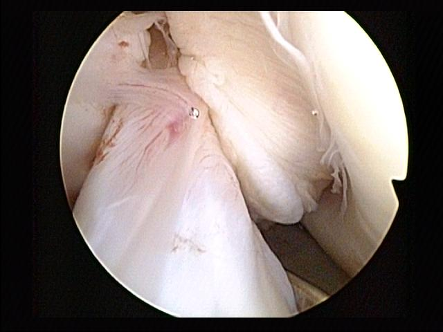 Anterior cruciate ligament (surrounded by synovium) during knee arthroscopy. Lateral epicondylus of the femur can be seen to the right.